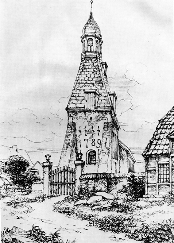 Ink drawing from the year 1817 of the church in Lehe (today Bremerhaven) by George Ernest Papendiek (1788–1835).